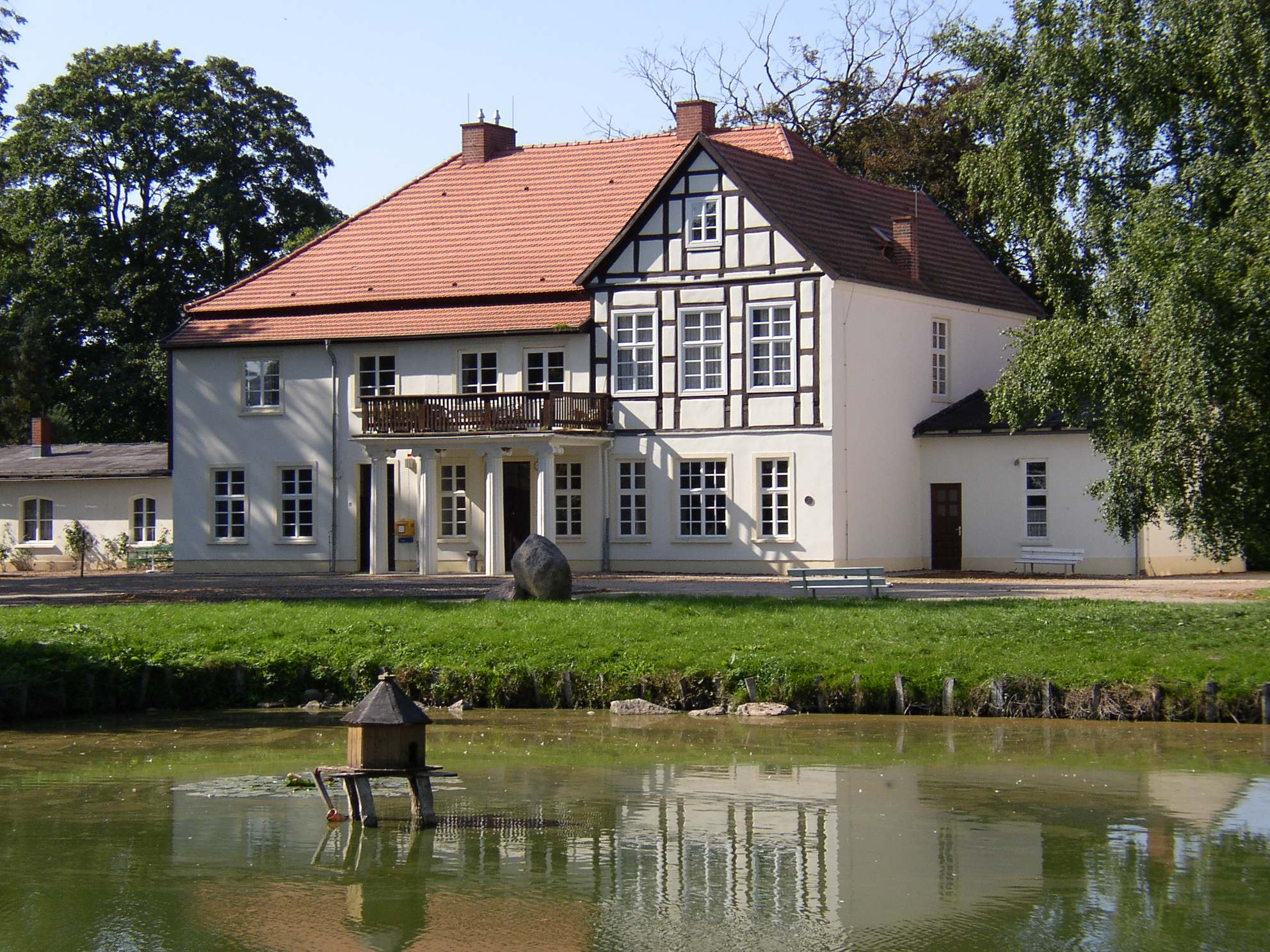 Thünen manor in Warnkenhagen-Tellow in Mecklenburg-Western Pomerania, Germany